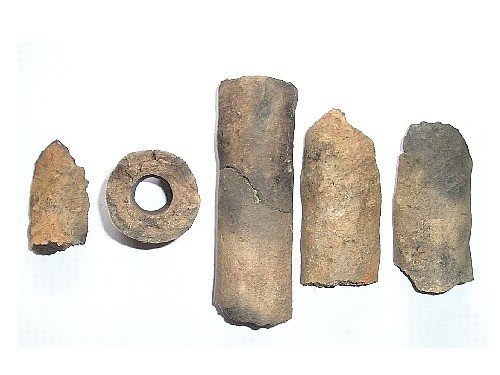 Nozzles of the furnace for smelting iron. Near 13 c.